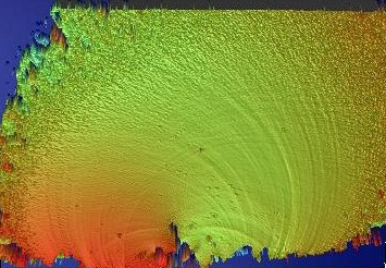 Optical profilometer image of the broken surface of a glass rod shows height of peaks (yellows and reds) and valleys (blues and purples) of the fracture surface in millionths of a meter. Curved ribs reveal the path of the stress waves through the glass. Image shows an area 1 x 1.3 millimeters. Credit: R. Gates/NIST Disclaimer: Any mention of commercial products within NIST web pages is for information only; it does not imply recommendation or endorsement by NIST. Use of NIST Information: These World Wide Web pages are provided as a public service by the National Institute of Standards and Technology (NIST). With the exception of material marked as copyrighted, information presented on these pages is considered public information and may be distributed or copied. Use of appropriate byline/photo/image credits is requested.